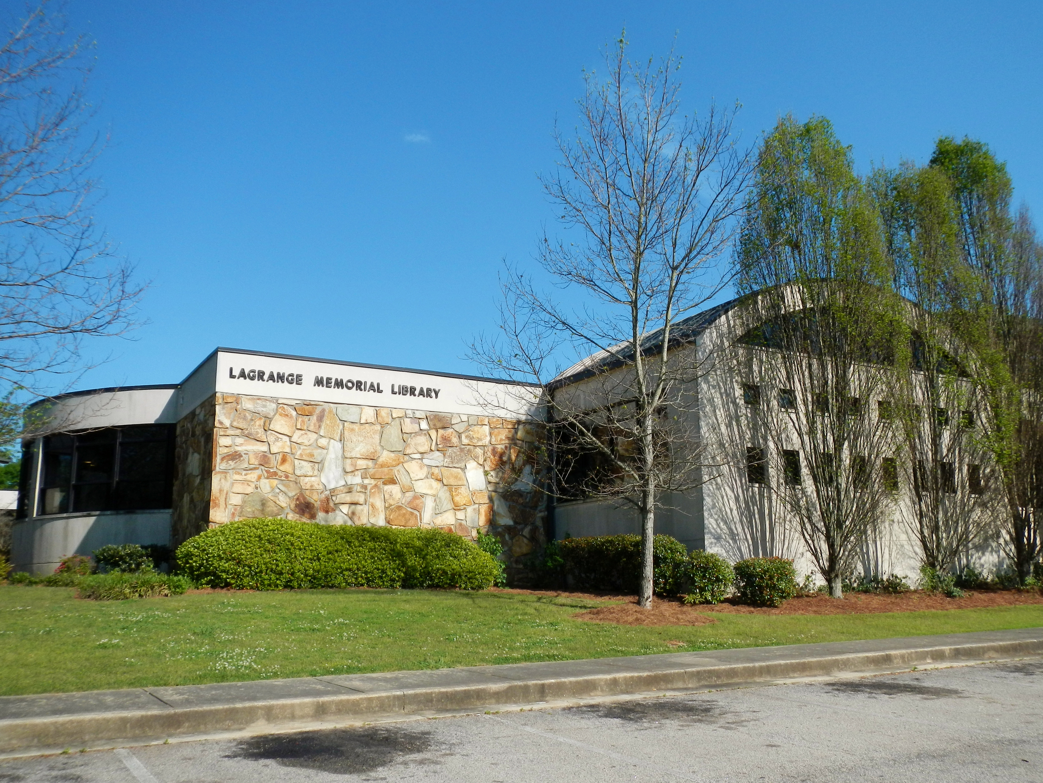 This is a photo of the LaGrange Memorial Library in LaGrange, Georgia.